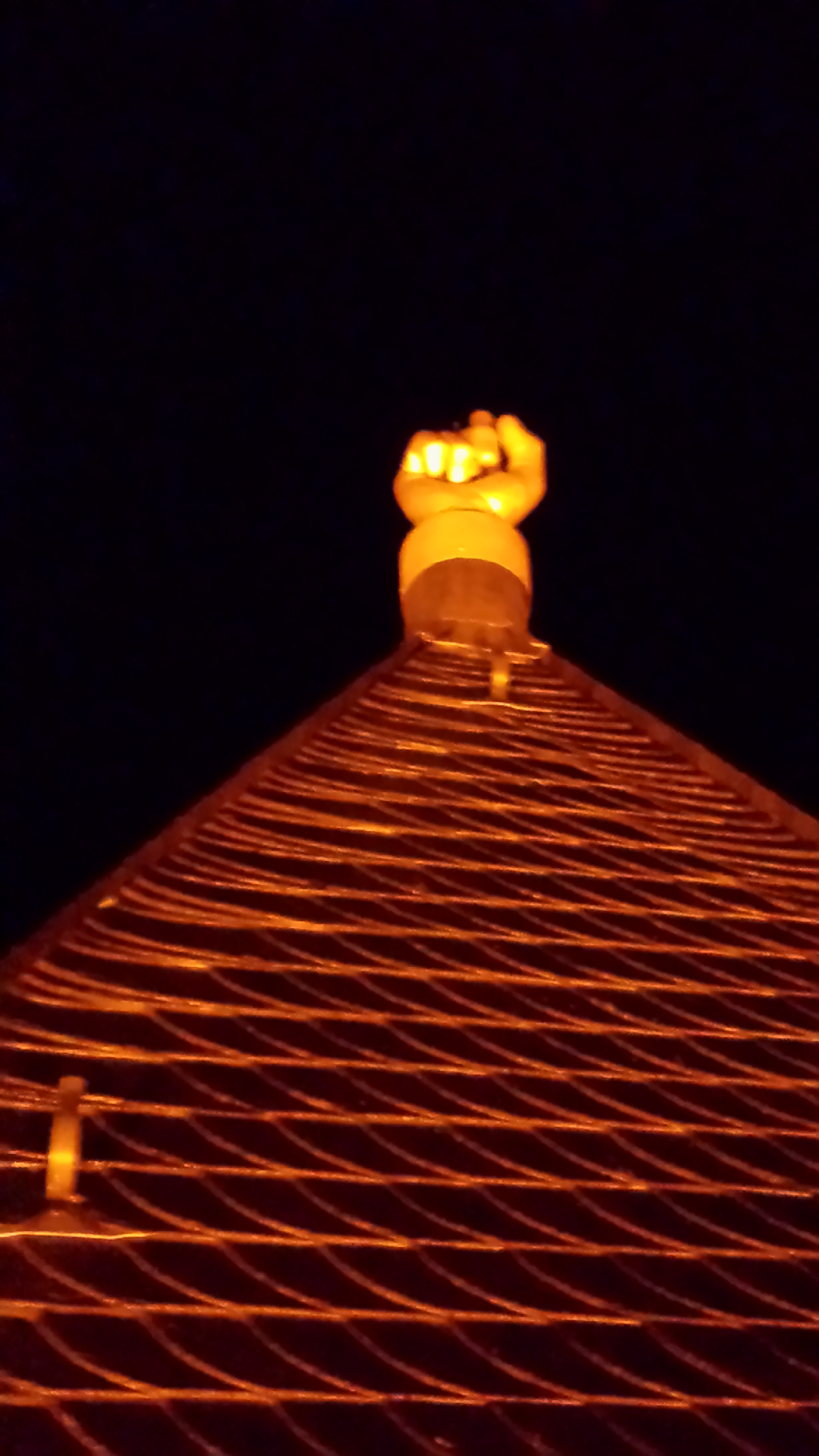 Illuminated reminding hand on the columbarium 2019